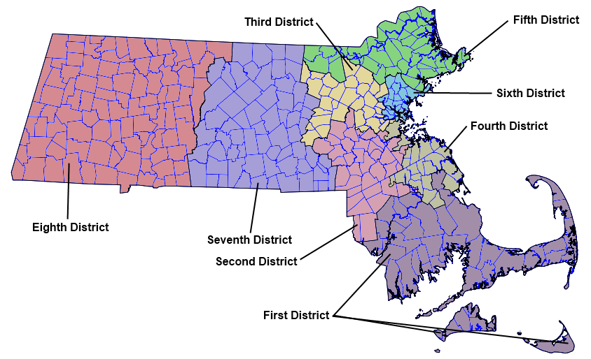 The 2012 Massachusetts Governor's Council districts This raster graphics image was created with This graphic was created with QGIS